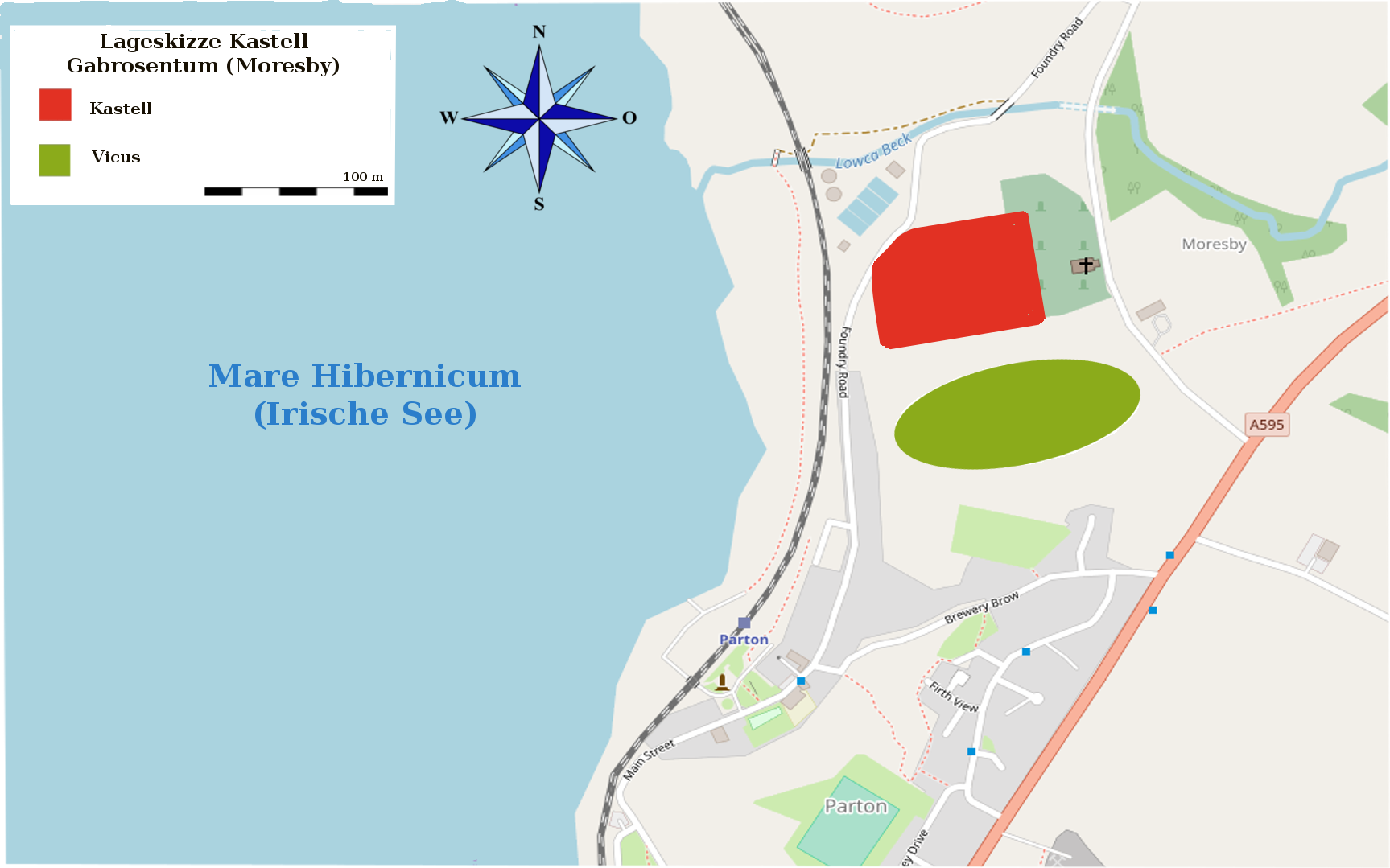 Plan of roman fort Gabrosentum, at present-day Moresby. Part of Cumbrian roman coastal defenses (2.-4. Century AD).